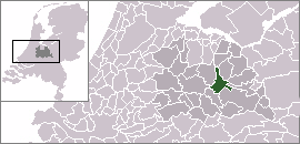 Location of Zeist, Netherlands, within the province of Utrecht